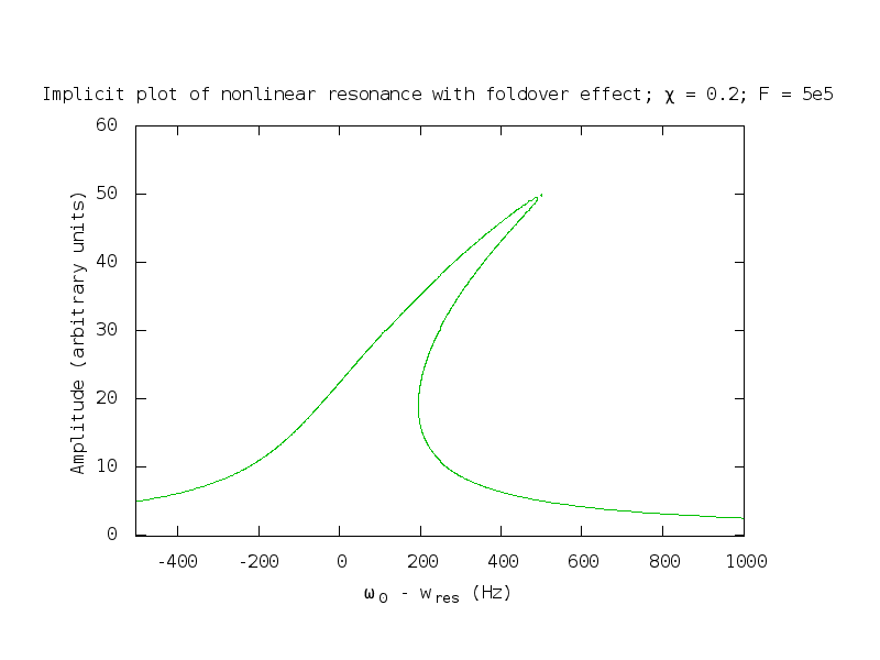 Foldover effect in a resonance mode of a nonlinear oscillator.